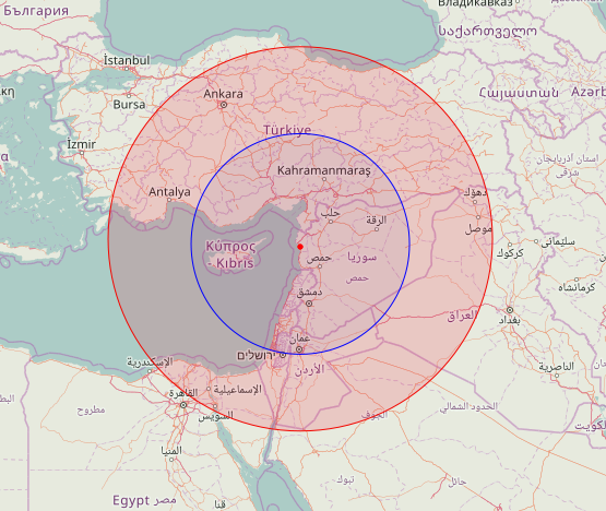 Area-denial anti-access bubble created by Iskander-M and S-400 systems deployed to the Khmeimim airbase. Red - ballistic missile range (700 km) Blue - maximum range of the S-400 system with 40N6 missile (400 km) Geographic base: OpenStreetMaps tiles layer. Rendering: Leaflet, an open-source JavaScript library for interactive maps. Circles appear to have distorted shape because of transformations by the geographic projection.